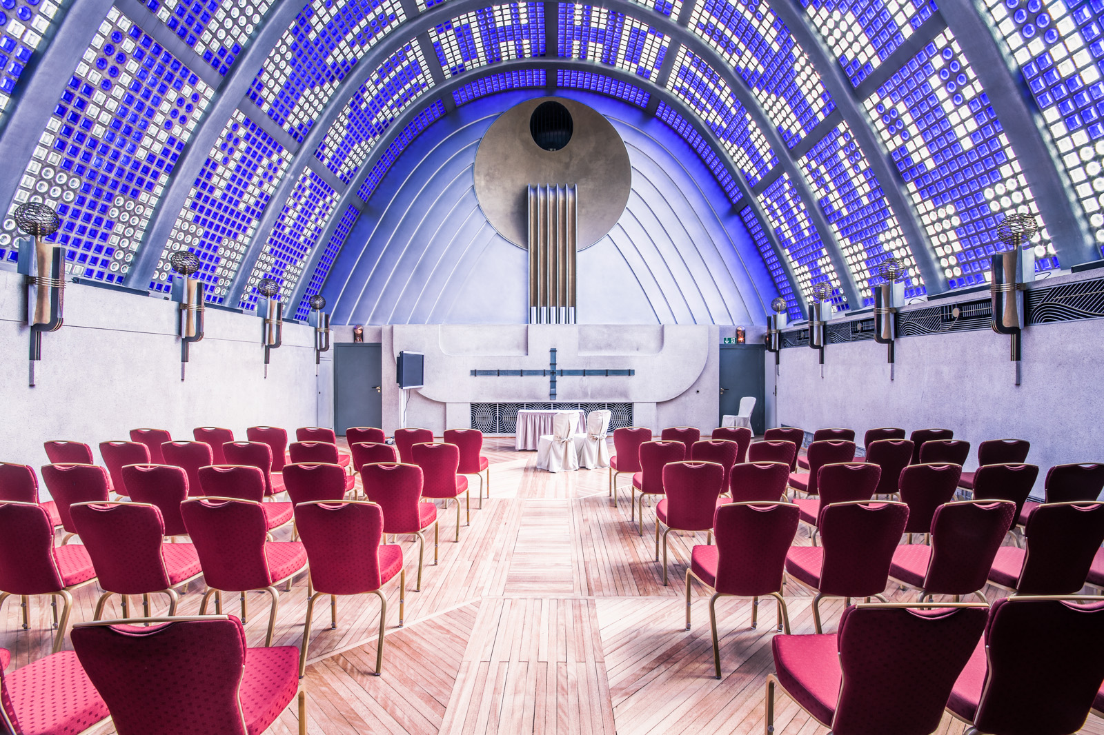 The "Himmelssaal" of the "Haus Atlantis", Bremen, Germany. Constructed after designs by Bernhard Hoettger in 1930/31, the "Haus Atlantis" was meant to be a reminiscence to the sunken continent "Atlantis". The builder, Ludwig Roselius, was convinced of the teachings of the "myth-researcher" Herman Wirth, who held the view that the "aryo-germanic" people stemmed from the great and superior residents of Atlantis... The final execution was left to Hoettger. He obviously tried to realise a unification of the "völkisch" ideas of Wirth and Christianty – what might have given the Nazis rise to declare this building to be "Degenerate Art". However, in the end Albert Speer, the Nazi's "grandmaster of architecture", classified the "Haus Atlantis" as a historical monument. The building was seriously damaged in World War II, and it's nowadays still standing sections are part of the Hilton Bremen.